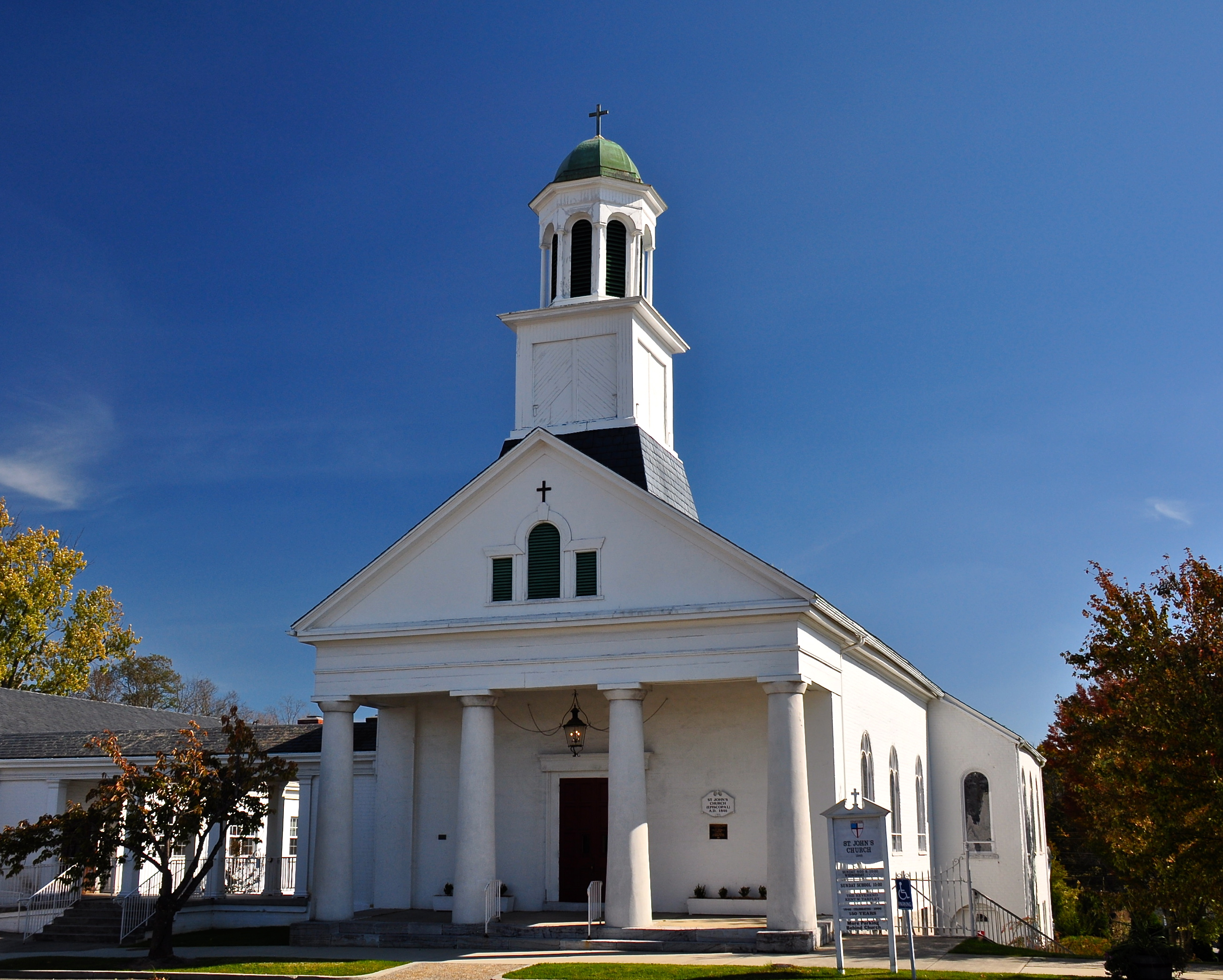 St. John's Episcopal Church is a historic Episcopal church located at Wytheville, Wythe County, Virginia. NRHP Reference # 08000894